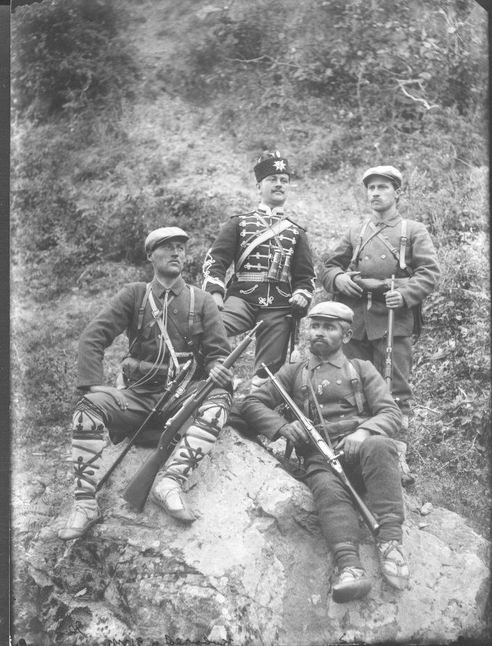 bulgarian revolutionaries Vladislav Kovachev, Boris Drangov and others from SMAC in 1903